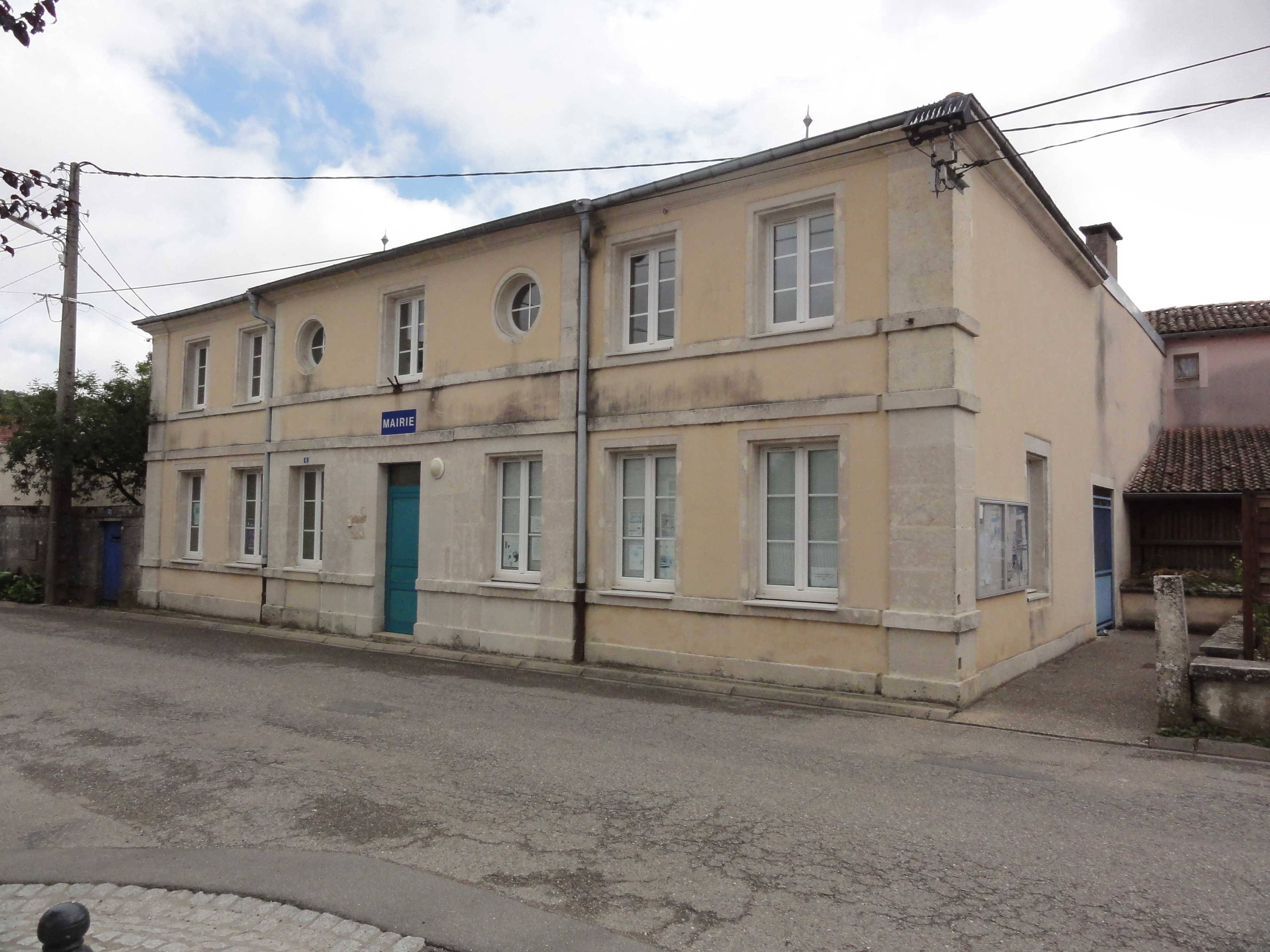 Méligny-le-Grand (Meuse) mairie